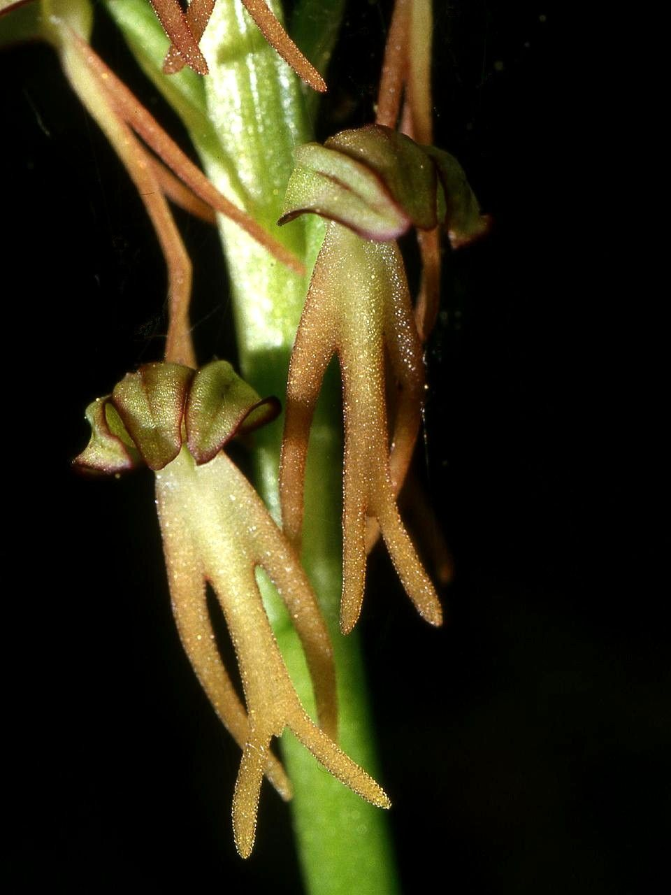 Orchis anthropophora